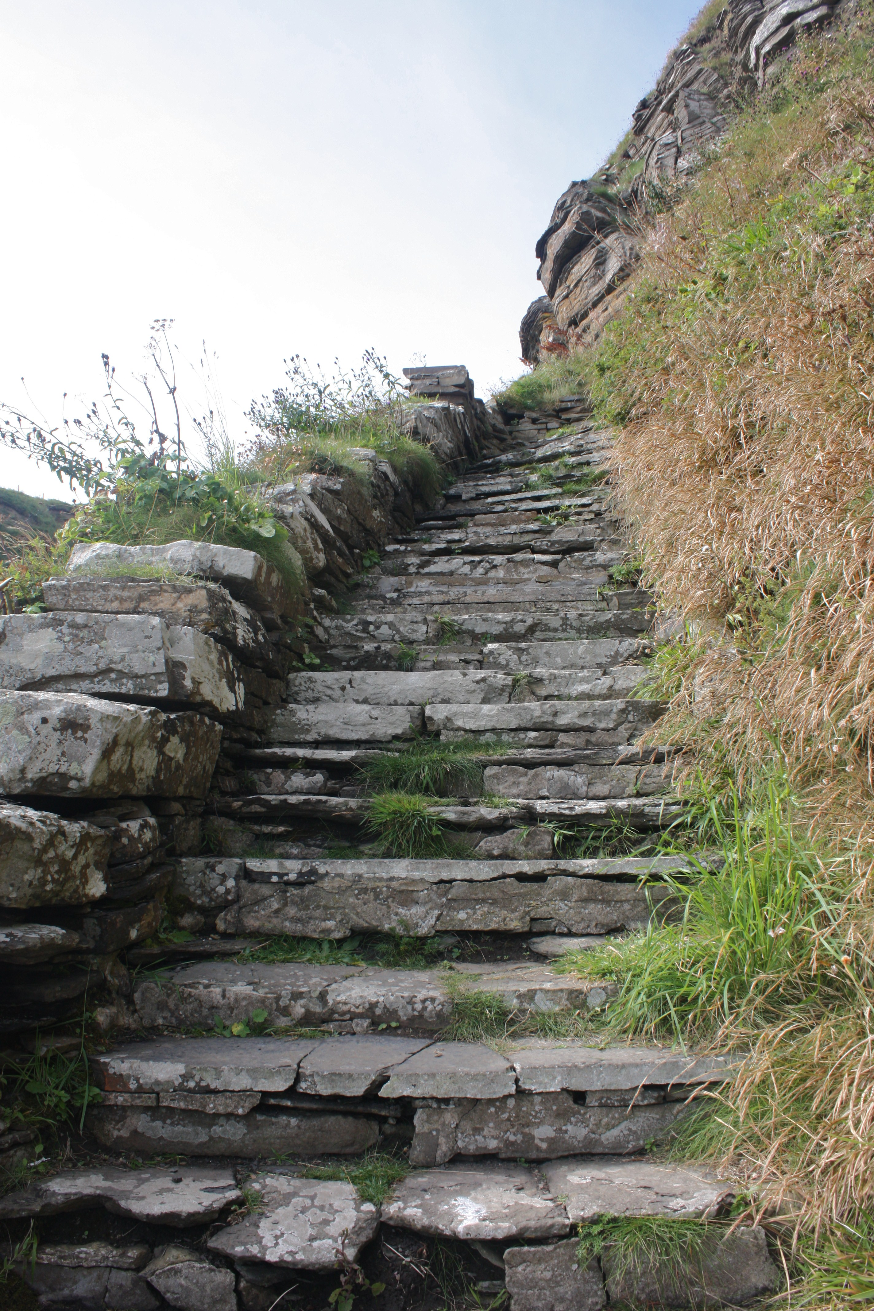 Whaligoe Steps. Caithness, Highland council area, Scotland.